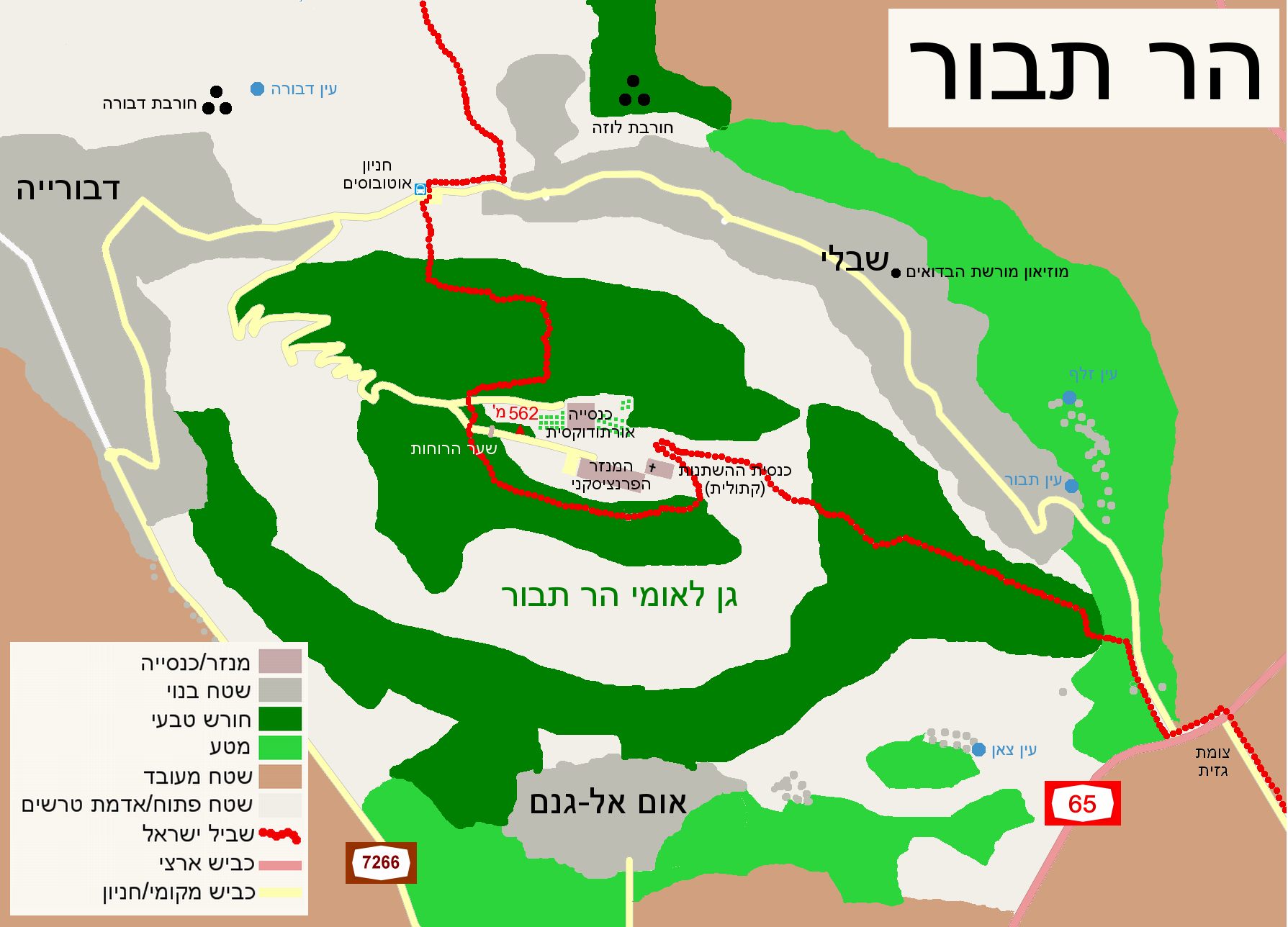 Map of Mt Tabore